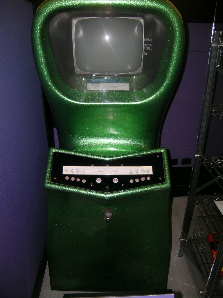 Computer Space, first commercial arcade game.